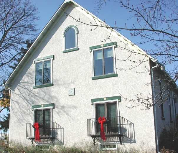 Alternate exterior of Meetinghouse Law Building, Spring City PA 2009